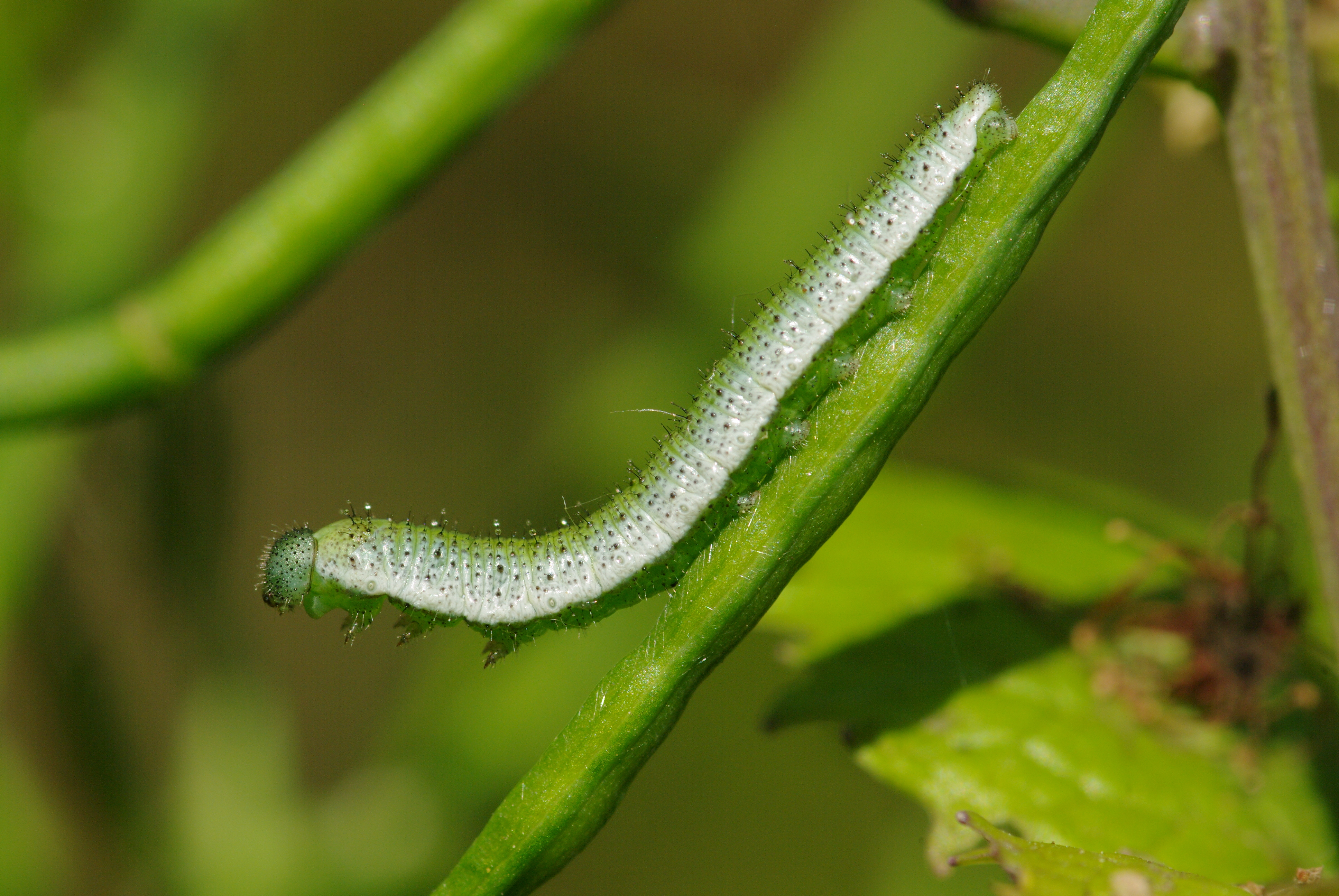 Caterpillar Anthocharis Cardamines on Alliaire (Alliaria petiolata).